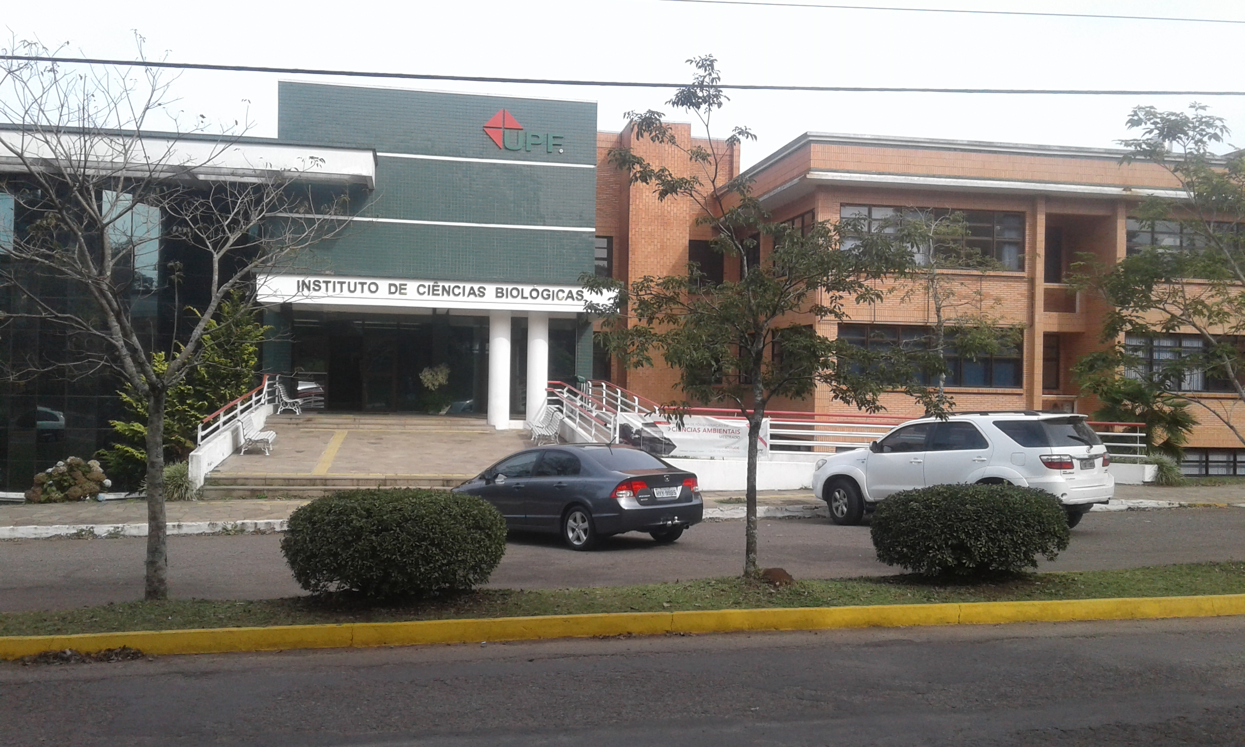 Biological Science Institute, Passo Fundo University, RS, Brazil